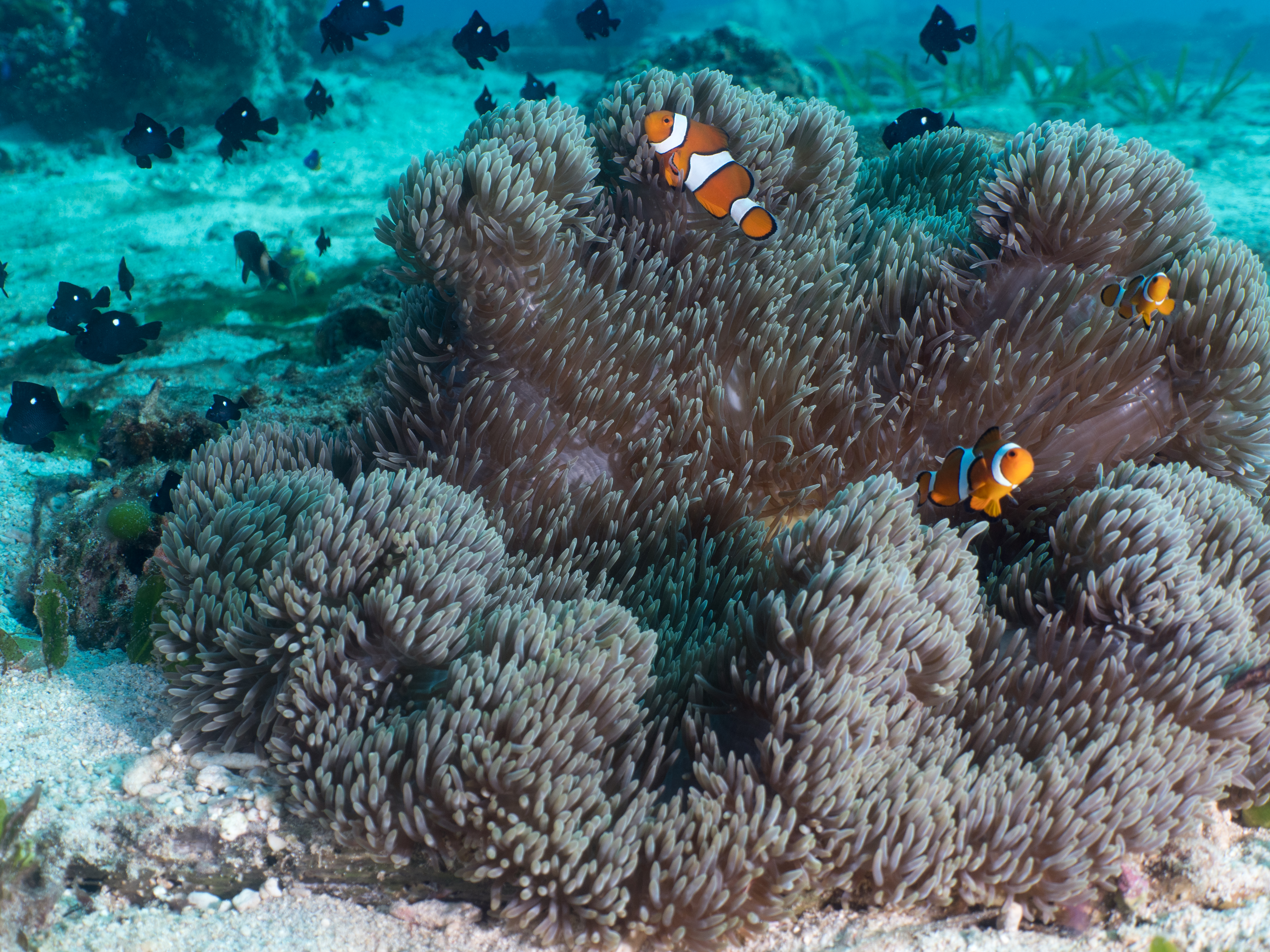 Ocellaris clownfish (Amphiprion ocellaris) and Threespot dascyllus (Dascyllus trimaculatus). Rao west of Morotai in Indonesia